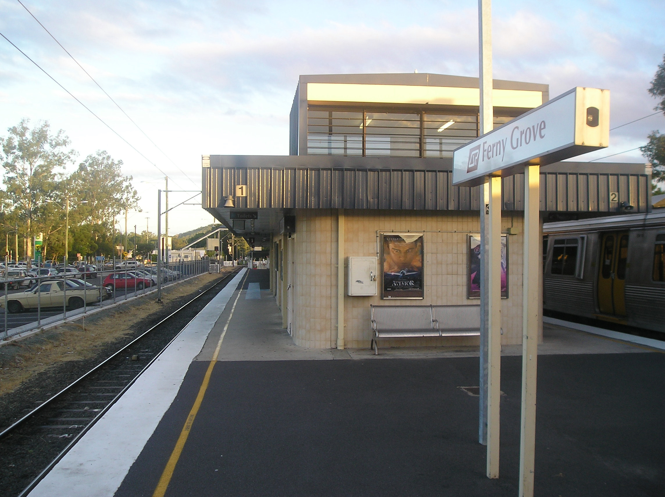 Ferny Grove railway station.